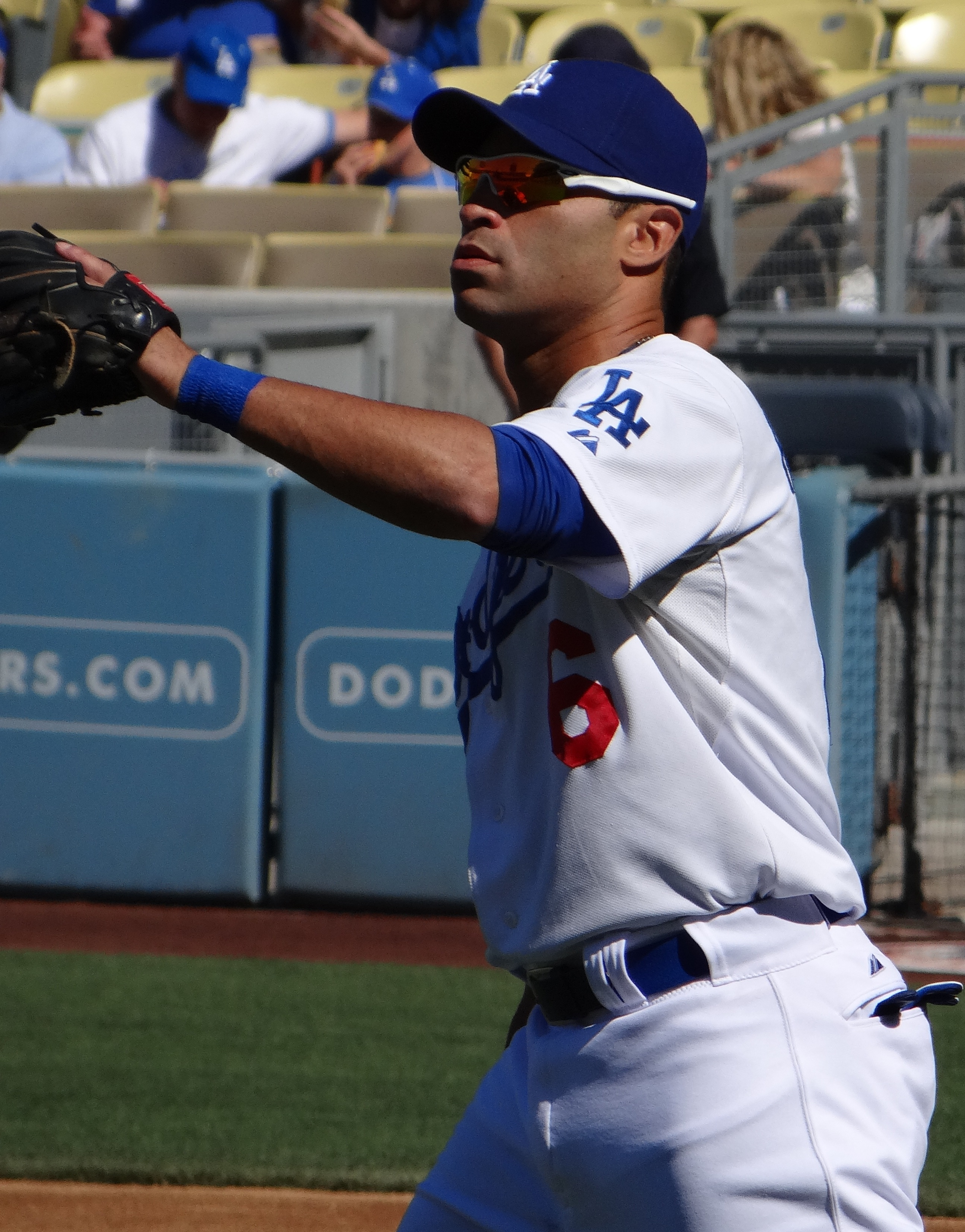 Photograph of Jerry Hairston, Jr., with the LA Dodgers